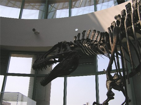 Acrocanthosaurus